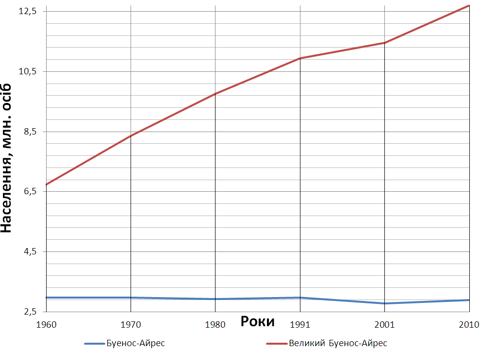 The population of Buenos Aires and Greater Buemos Aires (1960-2010).